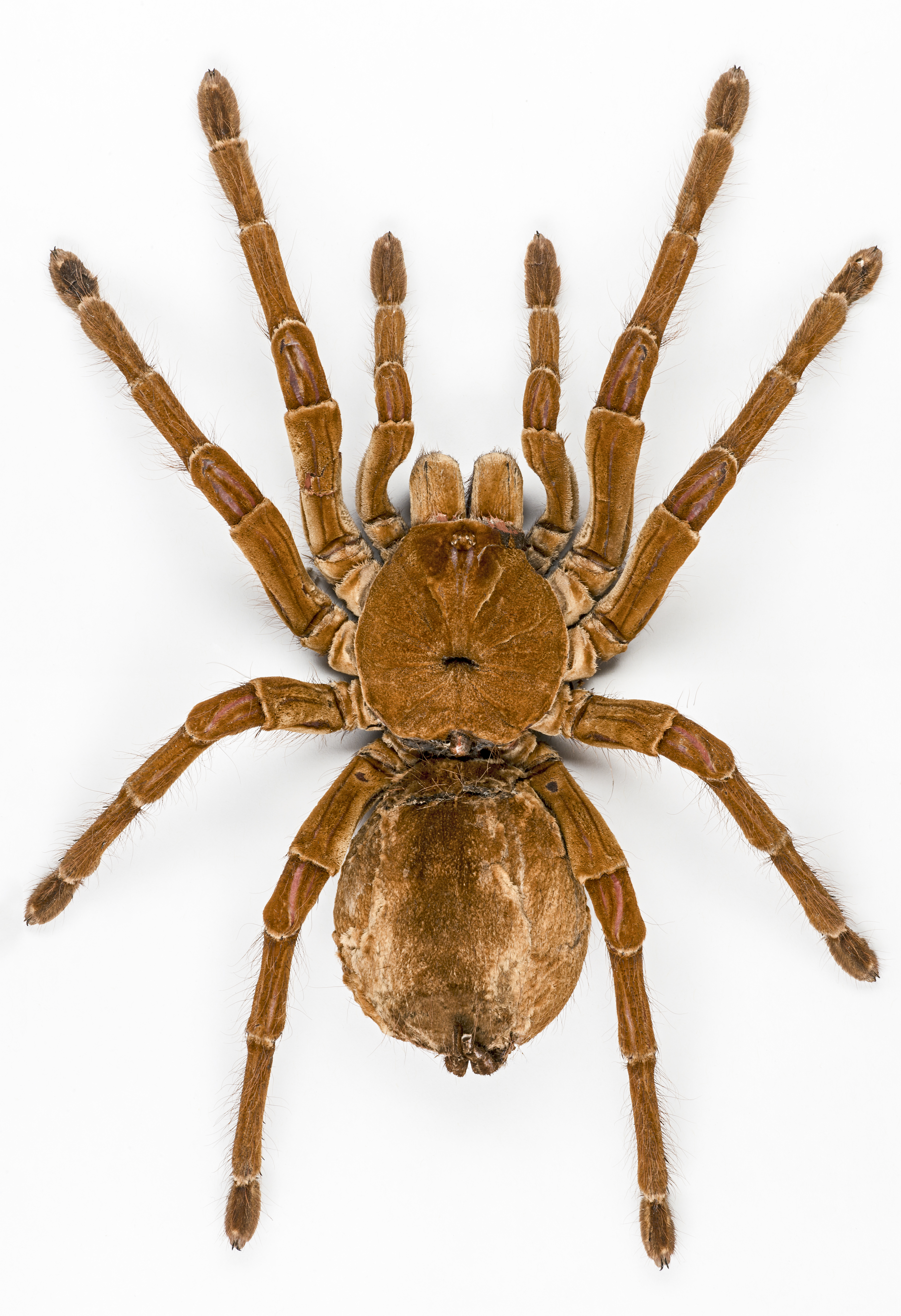 Goliath birdeater female - Dorsal side - 23,5 cm - Mounted specimen by Philippe Annoyer Locality: French Guiana, France